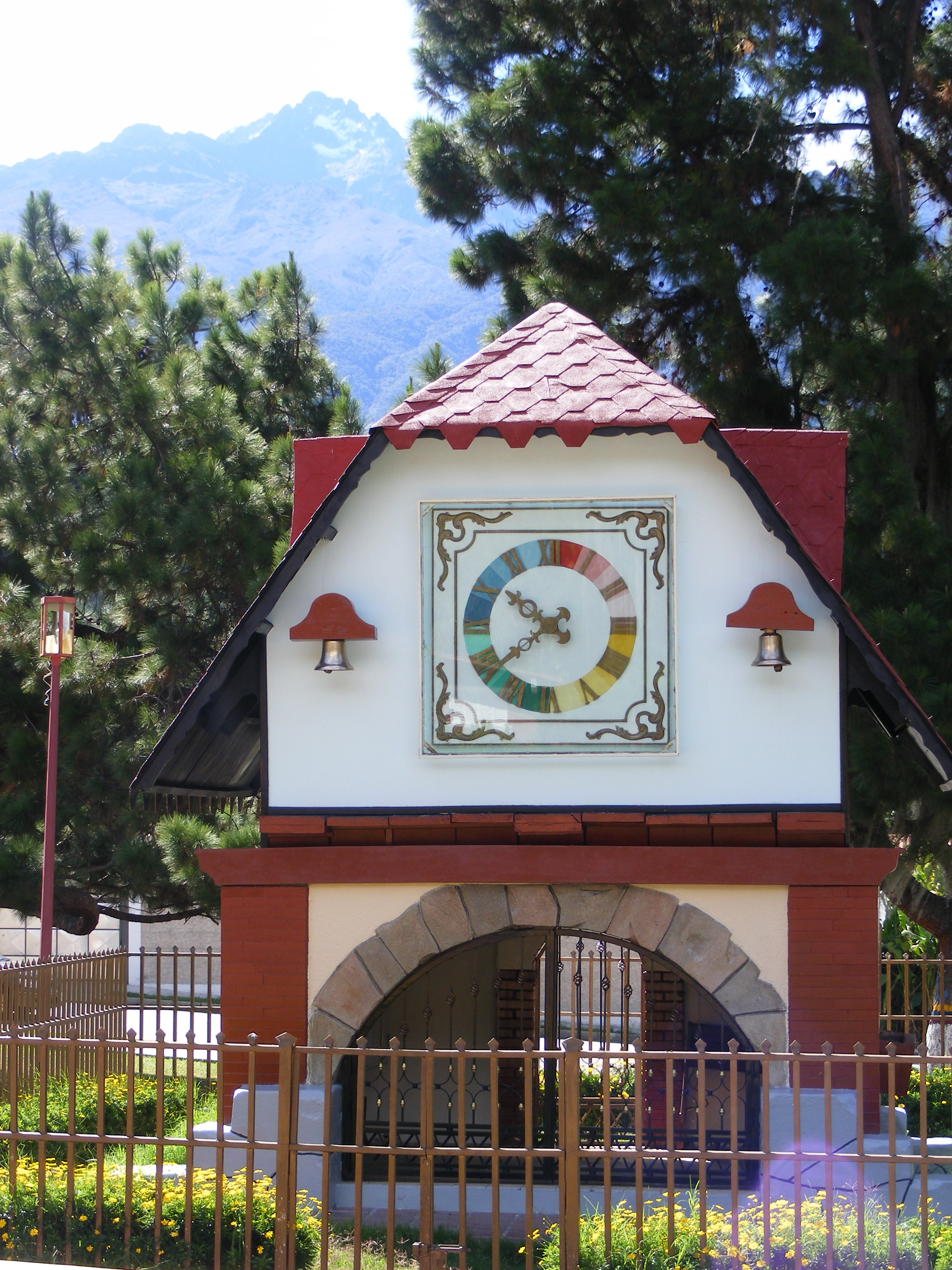 Beethoven's Park and Bolivar's Peak, Mérida, Mérida State, Bolivarian Republic of Venezuela